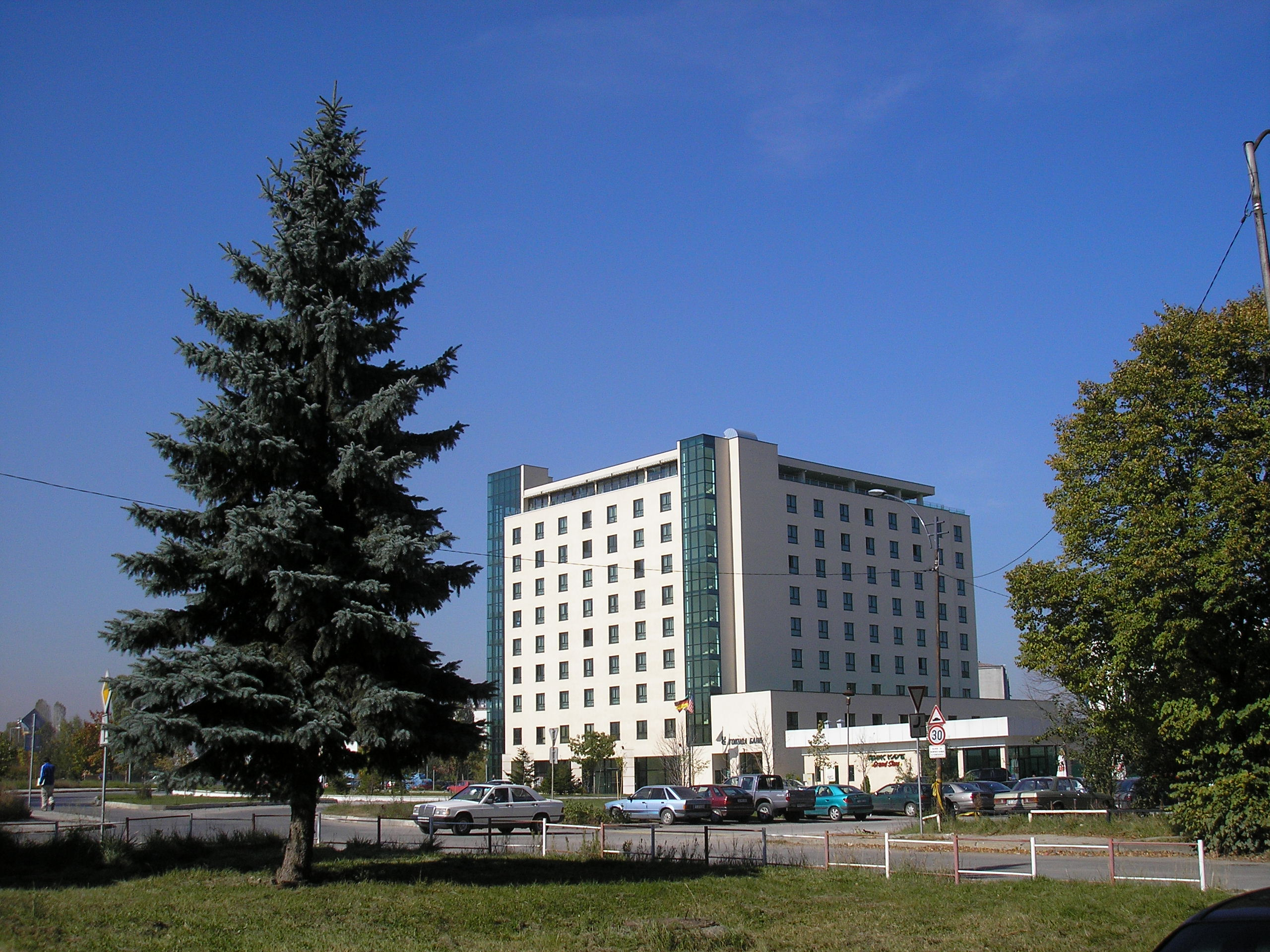 Hotel "Vitosha", on the territory of TU Sofia